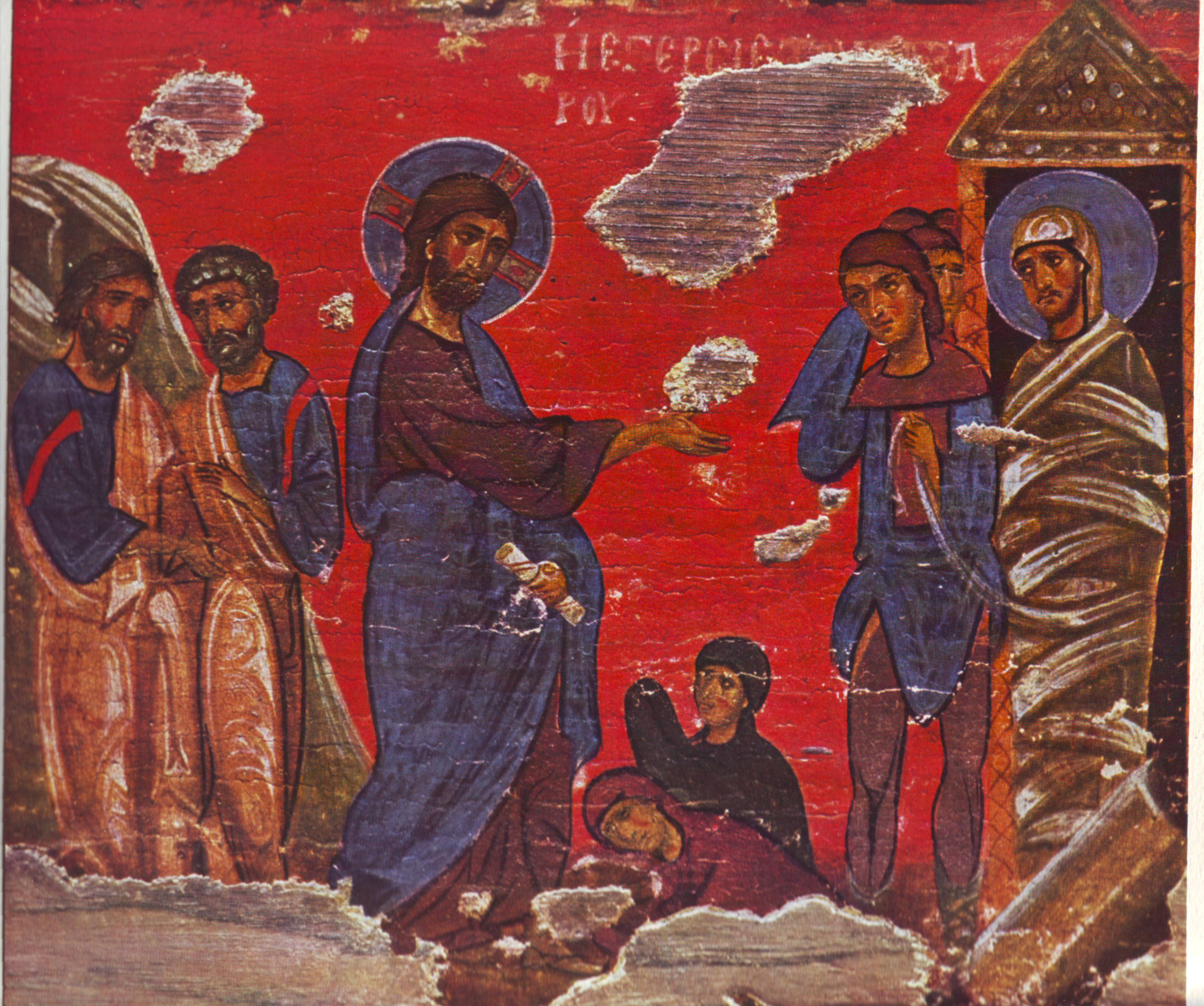 Resurrection of Lazarus. Private coll., Athens. 12-13 c. Воскрешение Лазаря